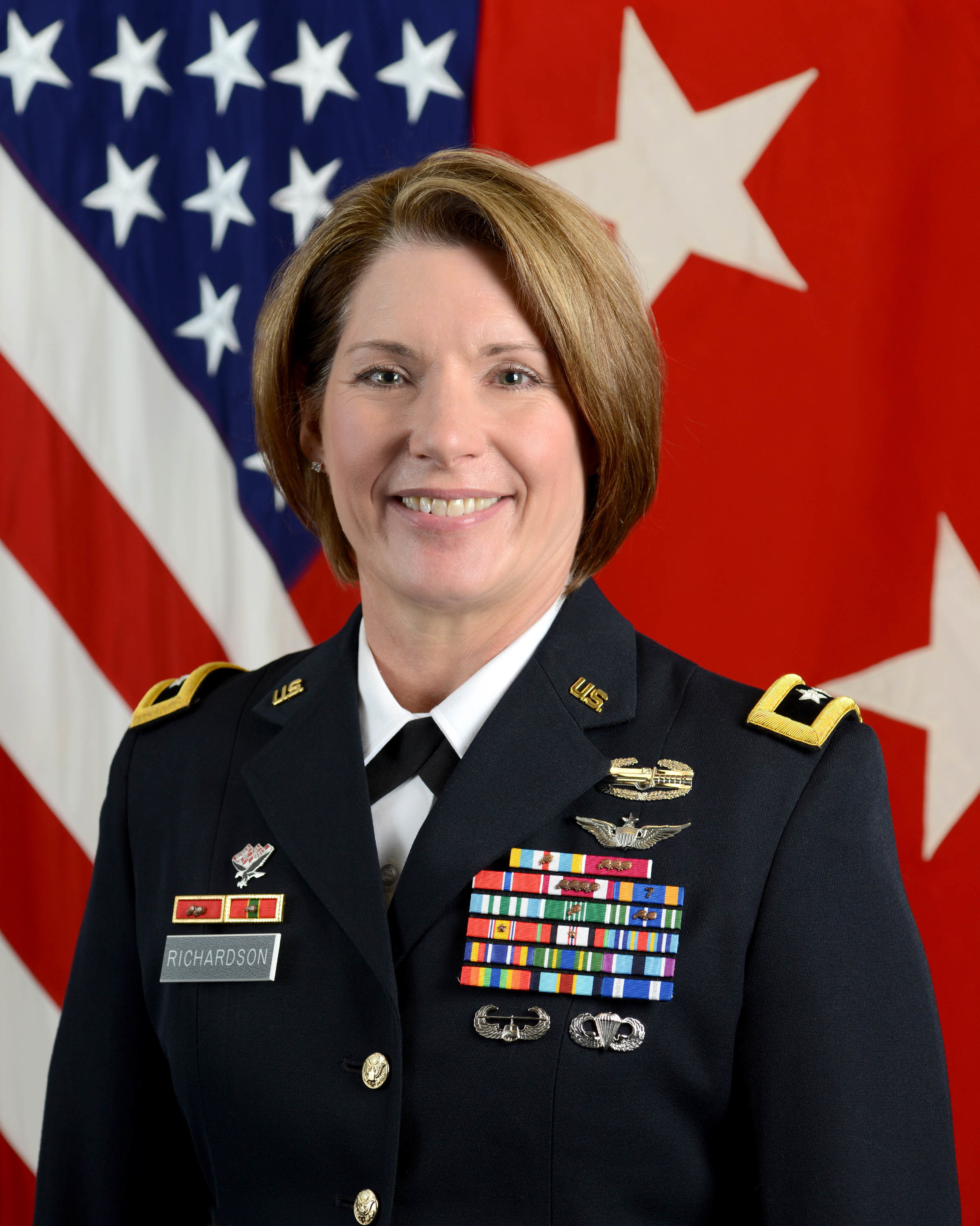 Maj. Gen. Laura J. Richardson